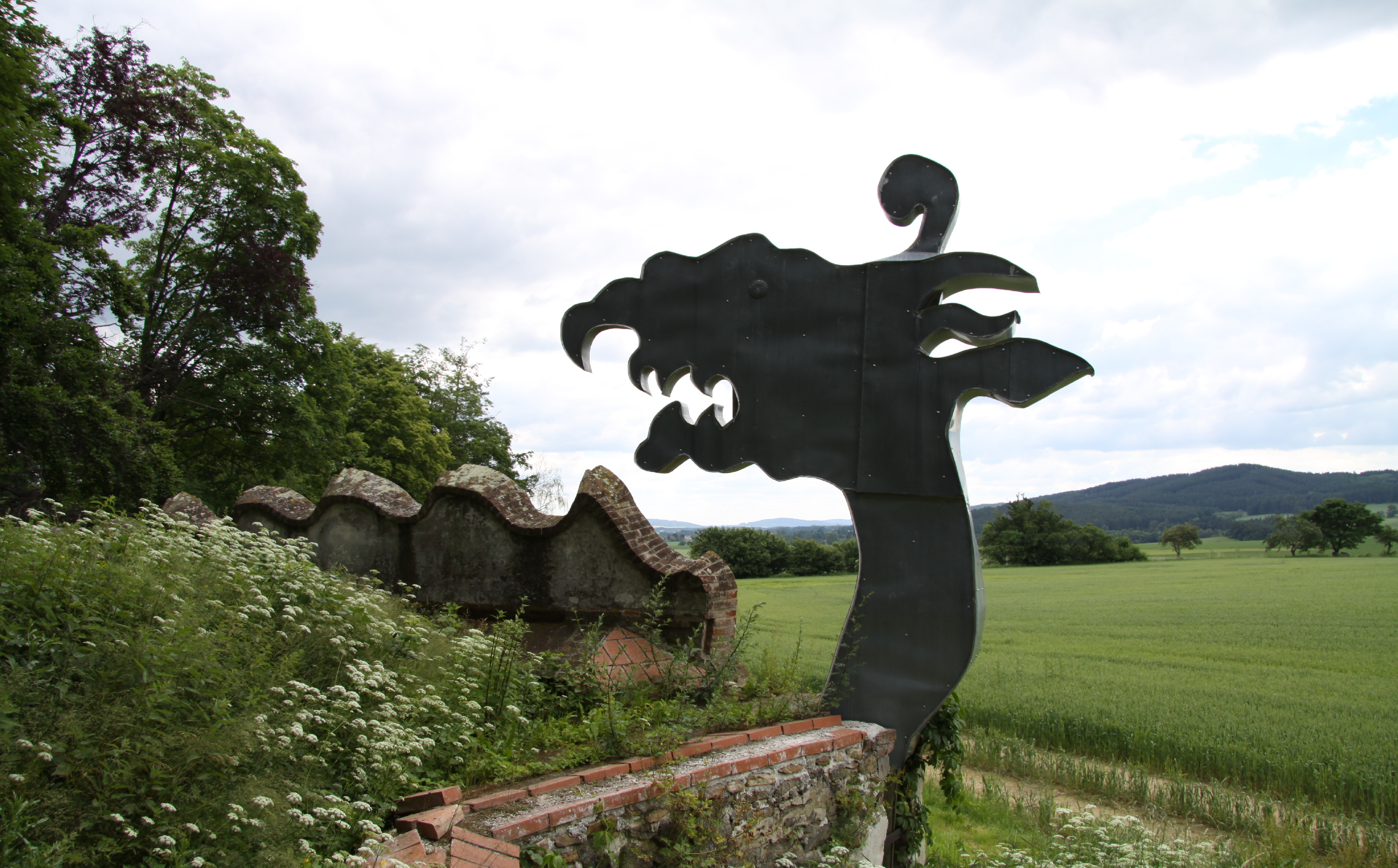 Kladruby village in Strakonice District, Czech Republic This photograph was taken within the scope of the 'Czech Municipalities Photographs' grant. - Google Maps - Google Earth